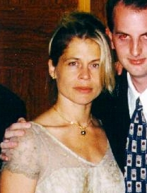 Linda Hamilton at the Titanic special effects wrap-up party on the Queen Mary. 1997.